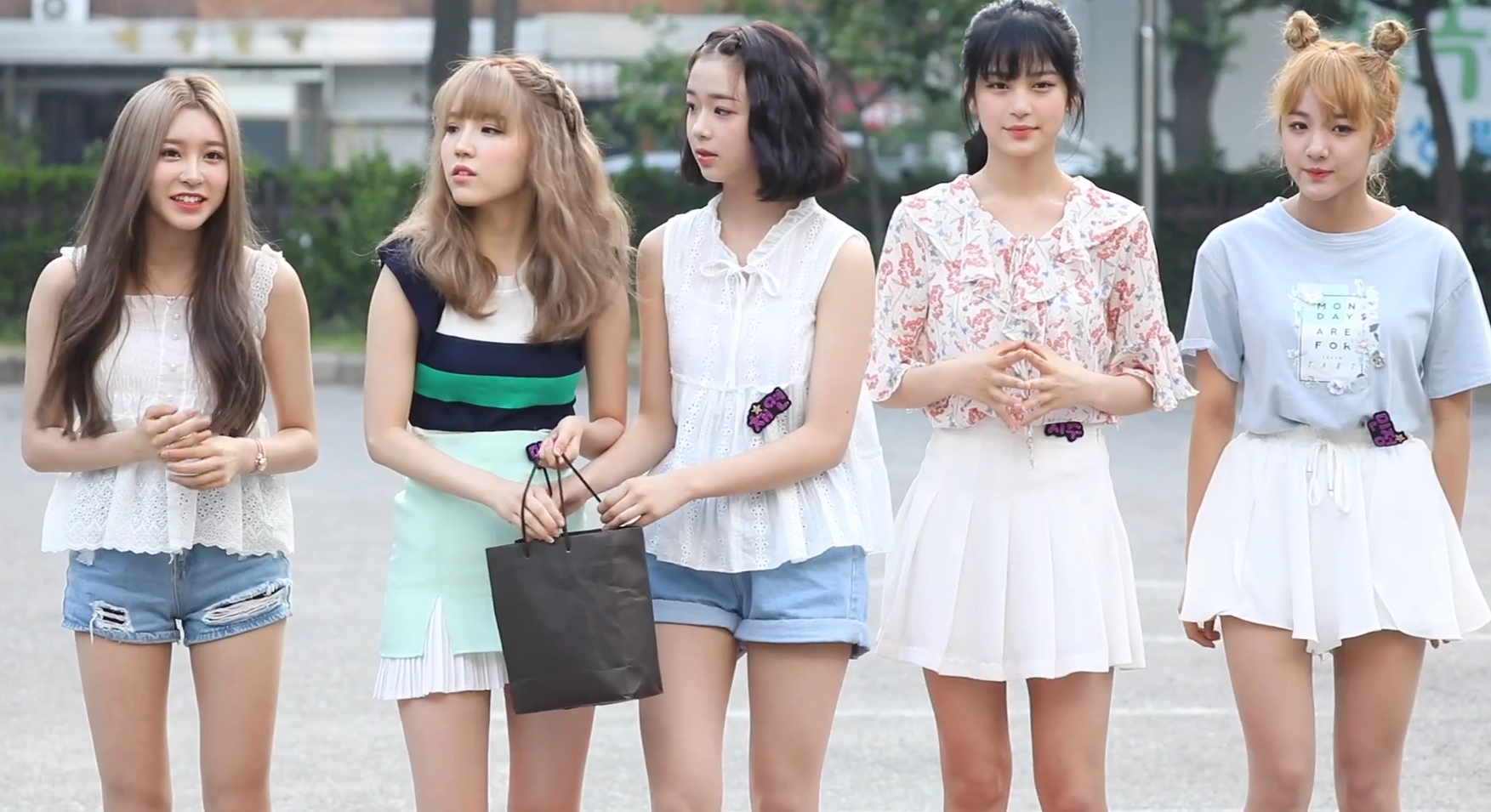 Busters arriving at KBS Music Bank on June 22, 2018